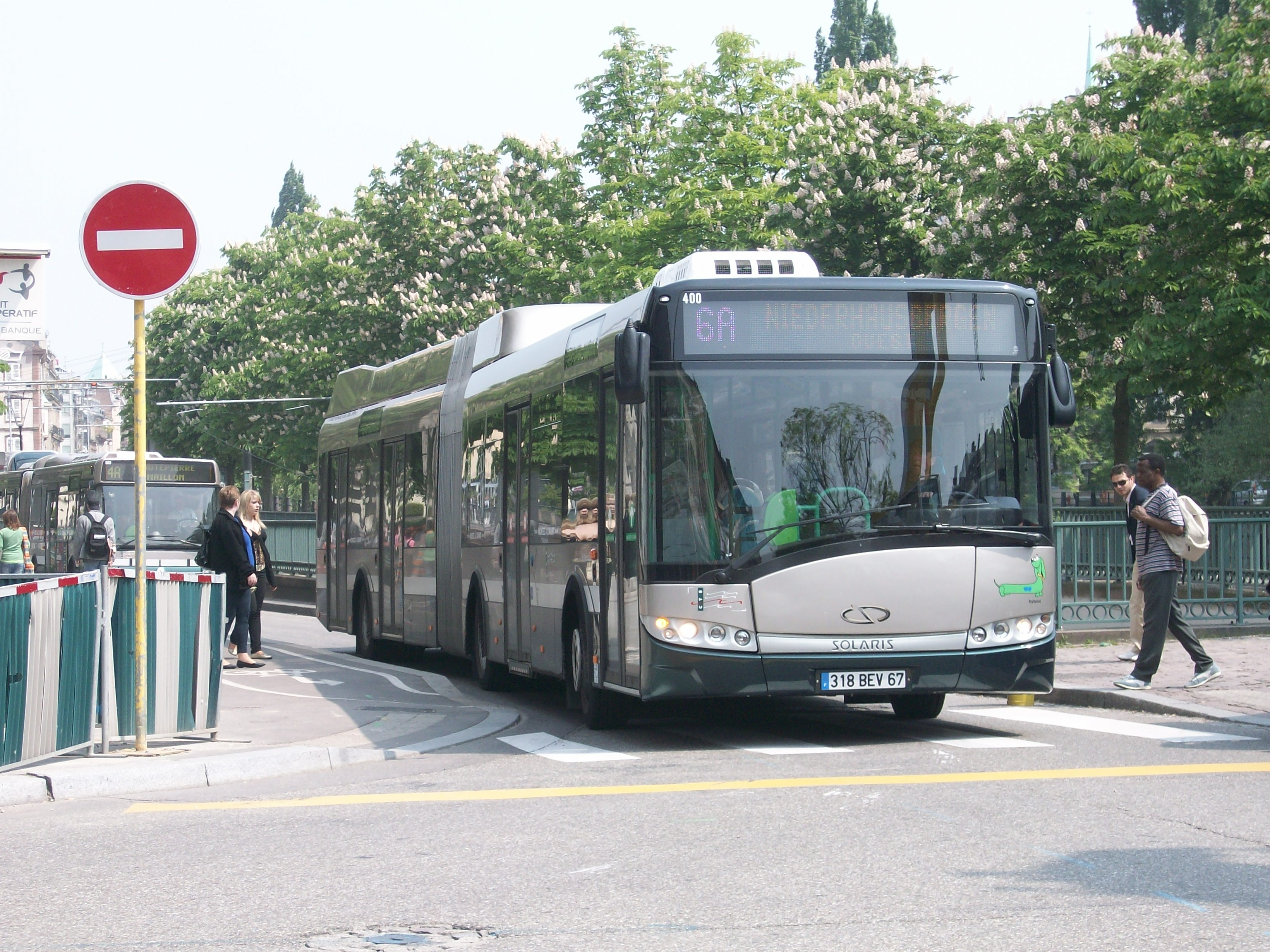 Solaris Urbino 18 Hybrid (Allison II) bus (#400, reg. 318 BEV 67) in Strasbourg, France. Built 2008, CTS Strasbourg operator.